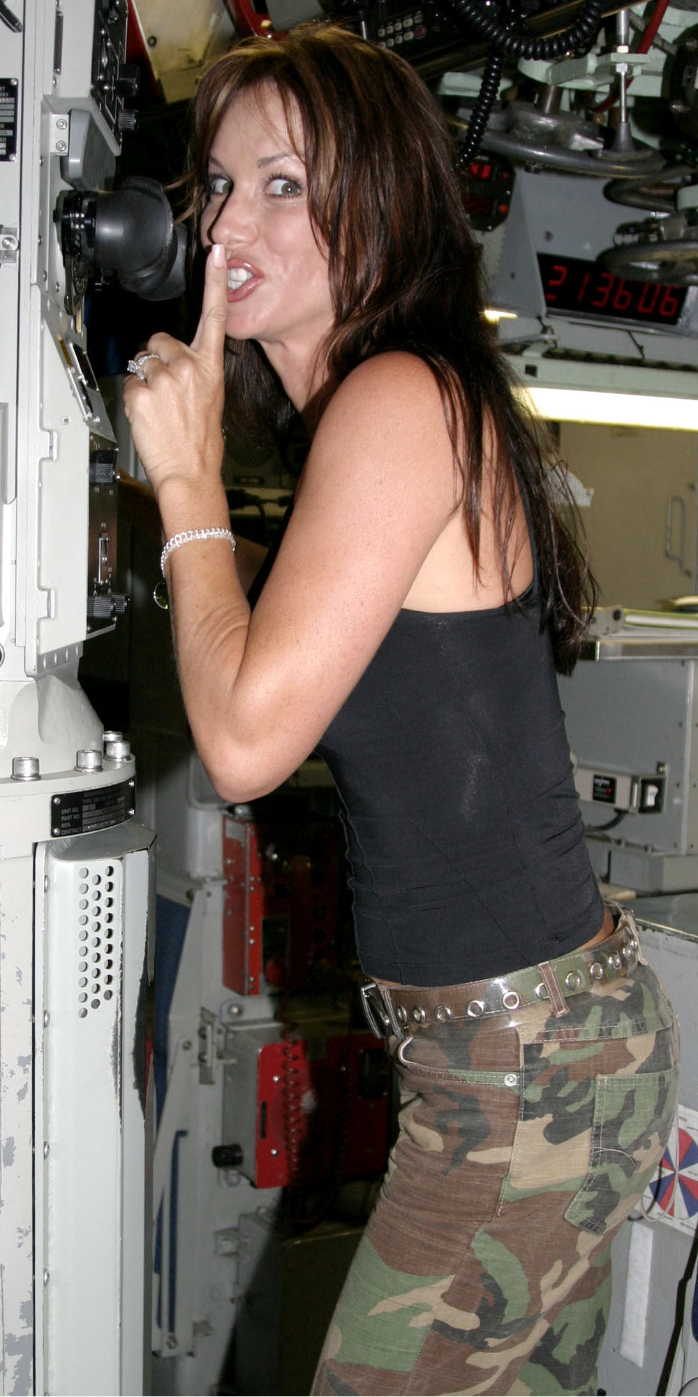 Debbe Dunning/Debbe Dunning. 030811-N-5539C-001 Pearl Harbor, Hawaii. "Actress Debbe Dunning, “Heidi” from the sitcom "Home Improvement", signals that she understands the "silent service" after peeking through the periscope during a tour aboard USS Key West (SSN 722)."